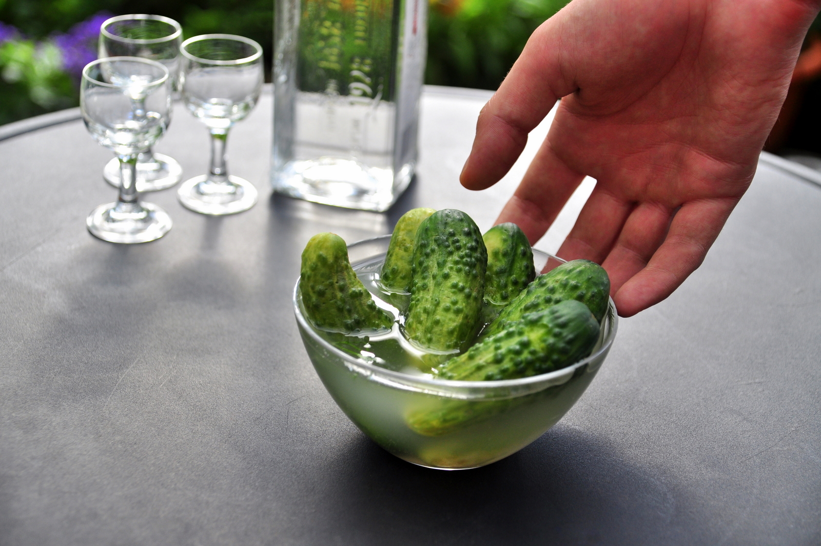 ogórek małosolny ( 'little salt cucumber') - the Polish-style pickled cucumber.